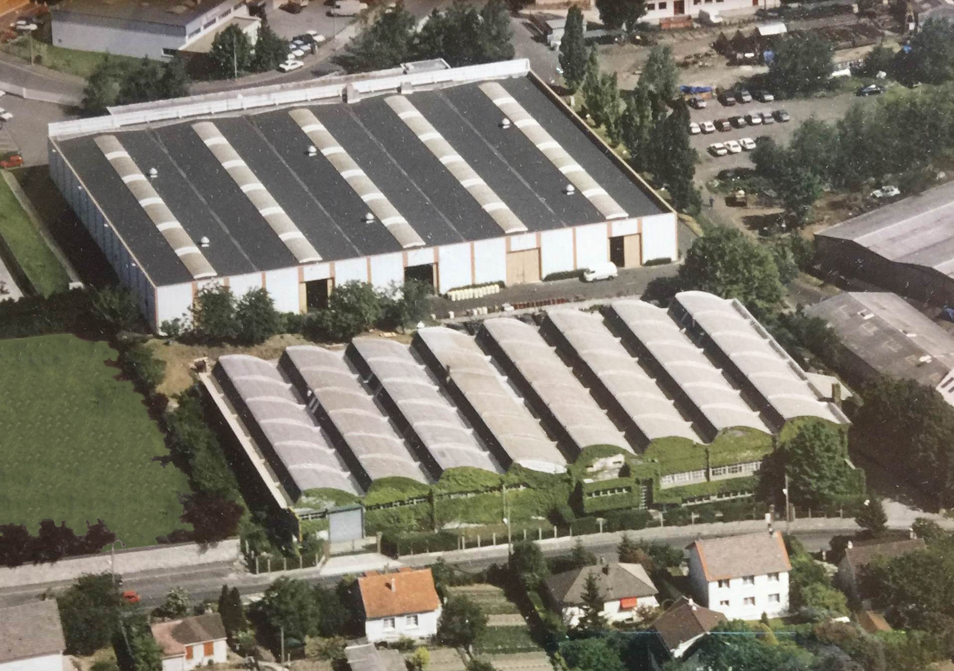 Headquarter and factory of Desjardin Metal Packaging, Paris, (2, rue du Thillay, Gonesse). - Aerial Photography.